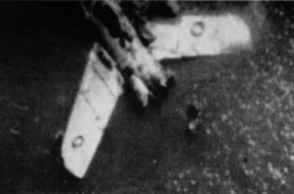 Photograph of the first Mikoyan-Gurevich MiG-15 fighter that was analyzed by United Nations' forces in the Korean War. This plane crashed in July 1951 in the tide flats south-west of Hanch'on, North Korea (Hanch'on at 38° 58' 48" N 125° 41' 15" E is not on the coast), and was later spotted by Royal Navy carrier planes from HMS Glory (R62). The plane was broken up, a piece of the engine is visible aft of the center section. The tail section was located some 350 meters away. The circular objects on the wings are coils of rope used during salvage. The wreck was located an area of mudbanks with treacherous tides and at the end of a narrow channel which was supposedly mined, ca. 160 km behind the front lines. The salvage group consisted of the RN frigate HMS Cardigan Bay (F630), a US Navy crane-bearing landing craft and a South Korean launch, which completed the task early on 21 July. UN aircraft provided guidance along the approach channel to the wreckage, which a US helicopter had marked with buoys. The cruiser HMS Kenya (C14) provided long-range radar cover, UN aircraft provided air cover. The plane was retrieved transported to Inchon and then to Wright-Patterson Air Force Base, Ohio (USA), for analysis.